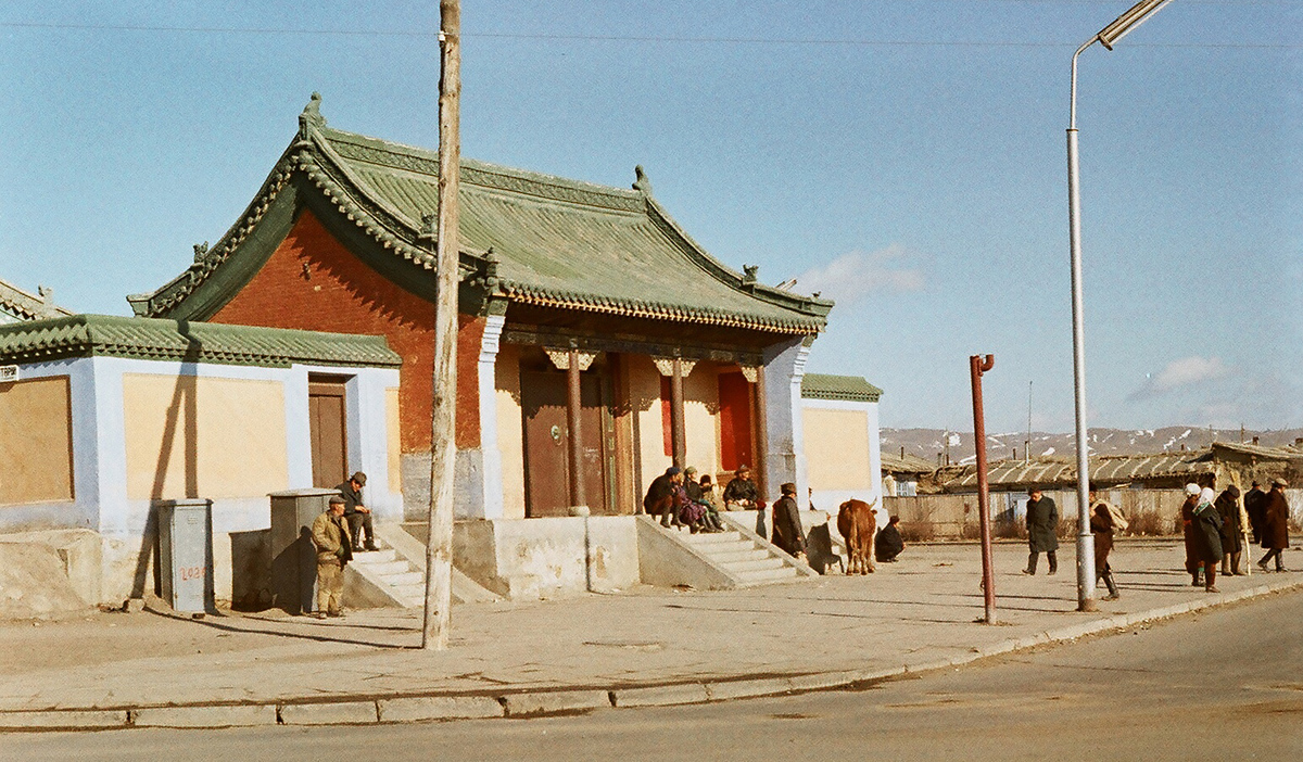 Bus station at the one of the buildings of the Geser Monastery, Ulan Bator, Mongolia, (1972).